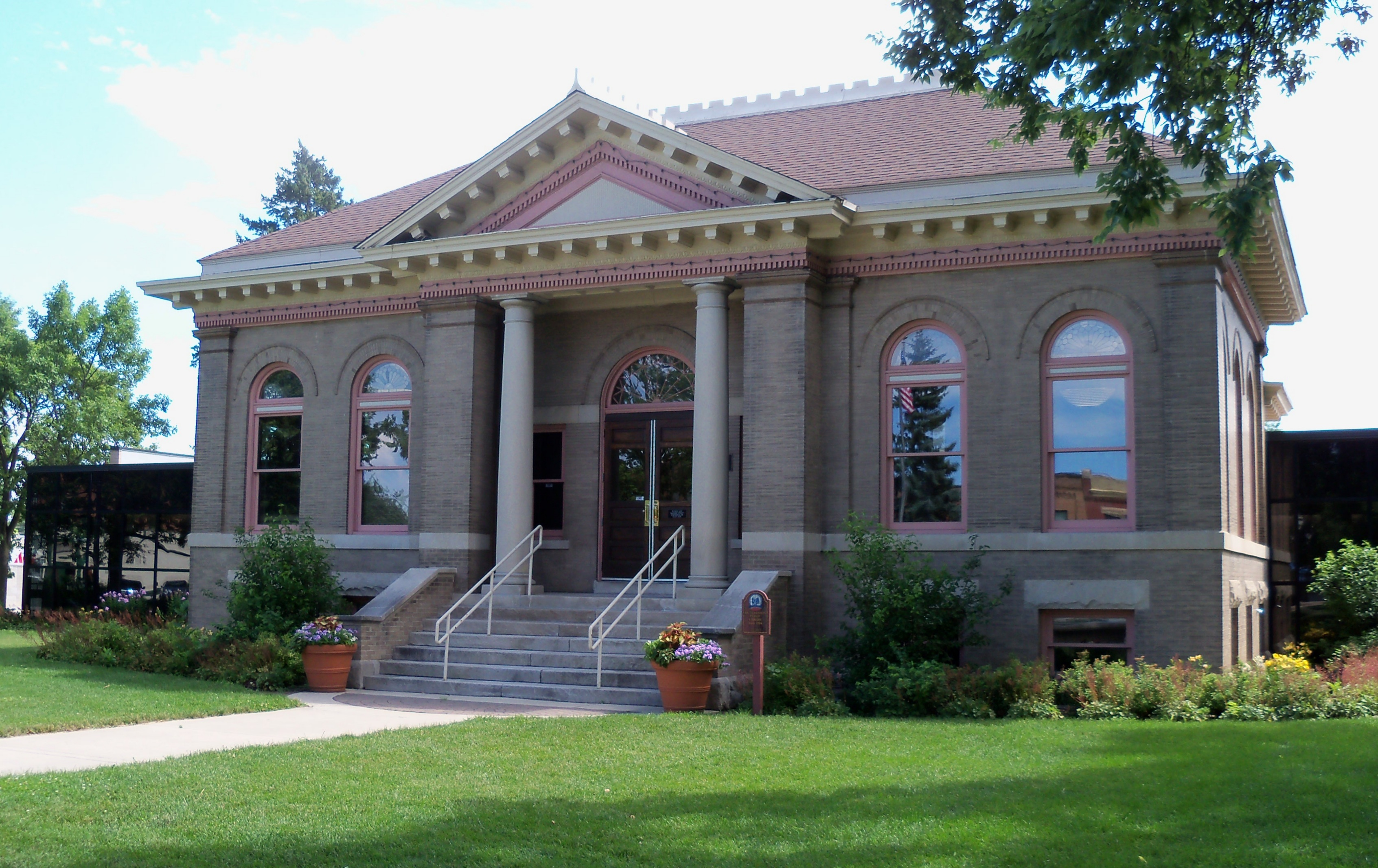 Carnegie Library in Hutchinson, Minnesota, USA.